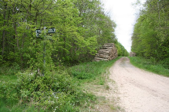 Potterhanworth Wood: Four way crossroads of footpaths in Potterhanworth Wood.